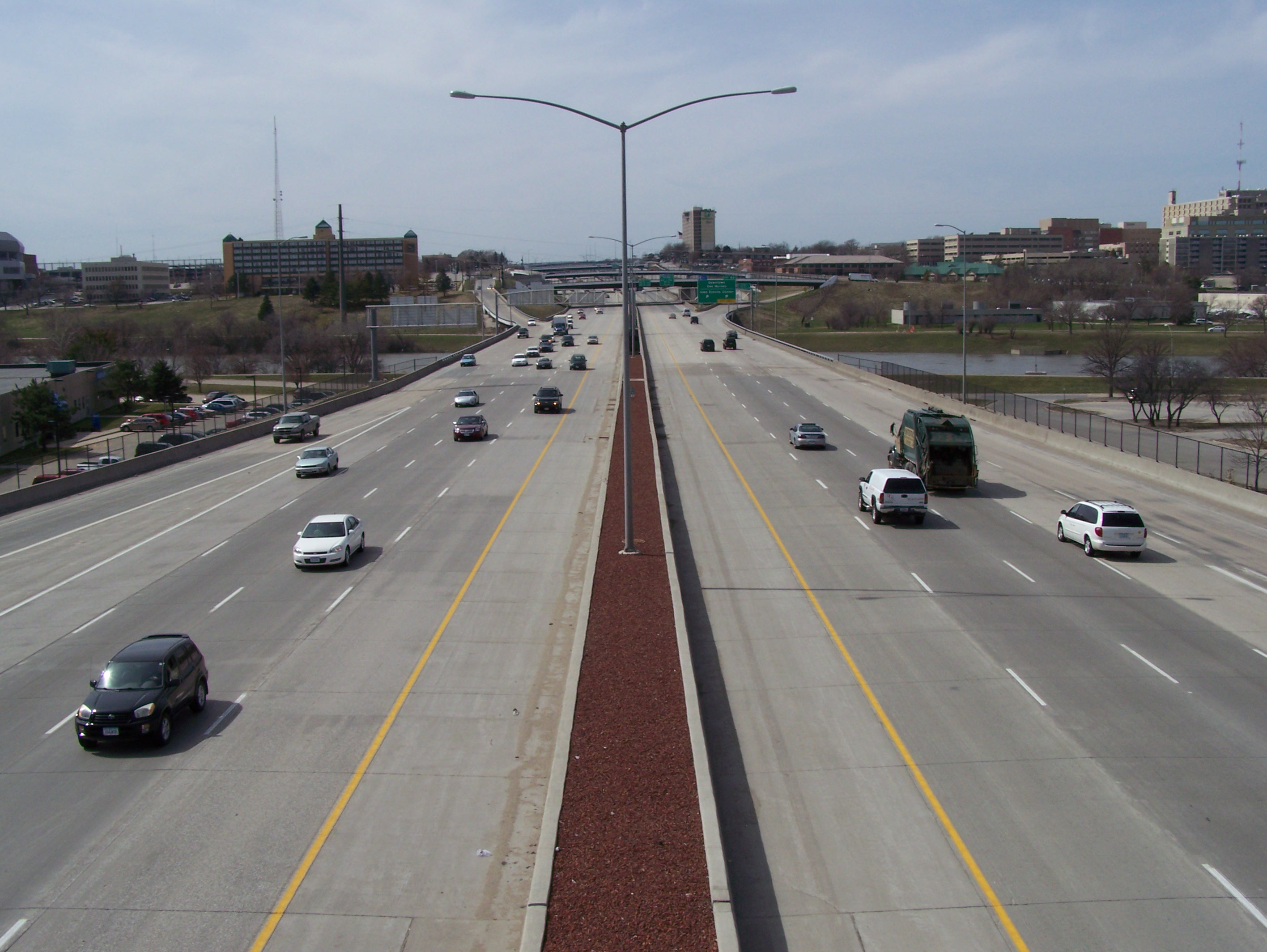 Looking west over Interstate 235 in Des Moines, Iowa. Taken from the Edna M. Griffin Memorial Bridge.